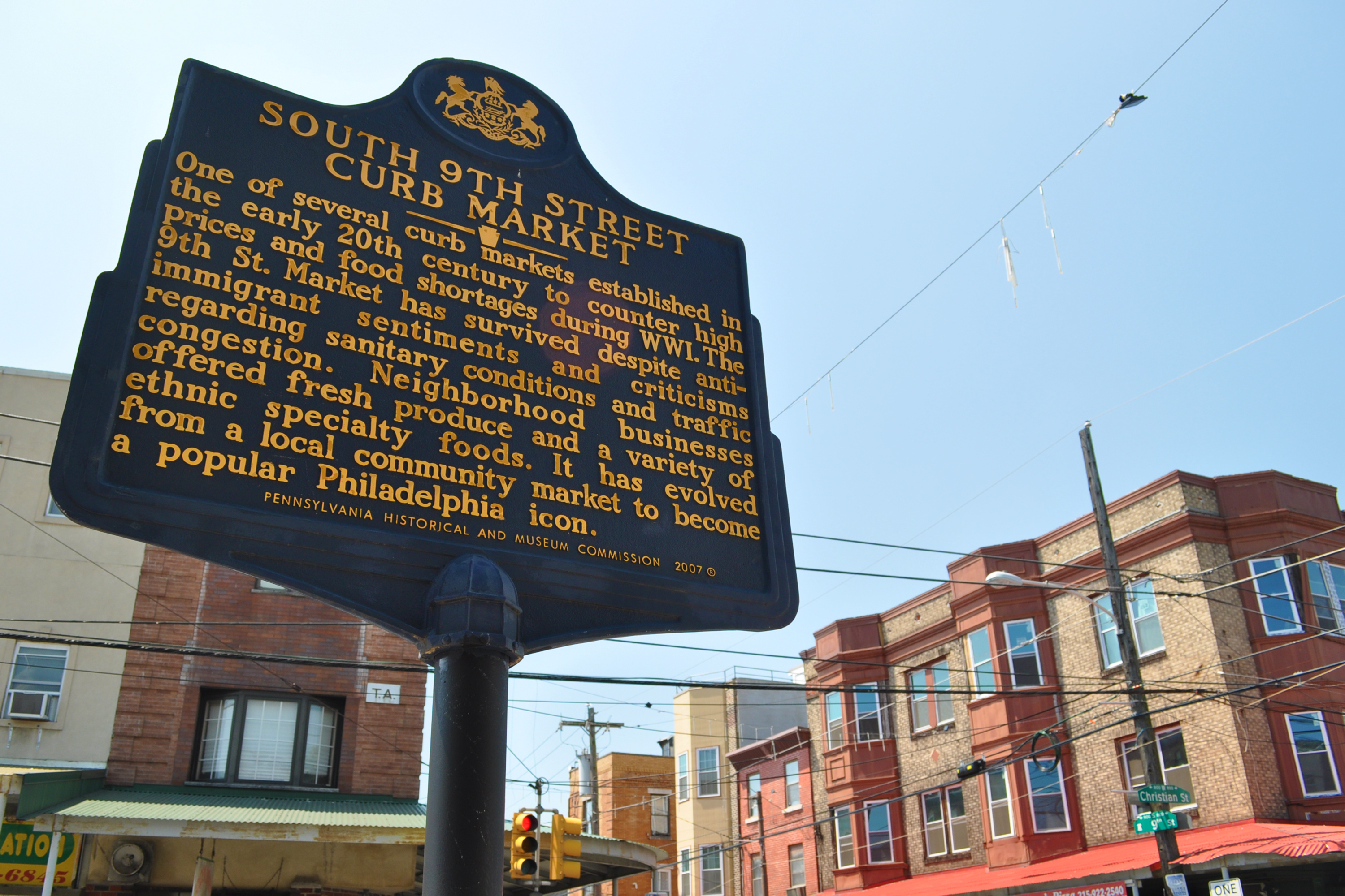 South 9th Street Curb Market. One of several curb markets established in the early 20th century to counter high prices and food shortages during WWI. The 9th St. Market has survived despite anti-immigrant sentiments and criticisms regarding sanitary conditions and traffic congestion. Neighborhood businesses offered fresh produce and a variety of ethnic specialty foods. It has evolved from a local community market to become a popular Philadelphia icon. (Historical Marker at NE corner of 9th & Christian Sts. Philadelphia PA 19147 - PA Historical & Museum Commission 2007)